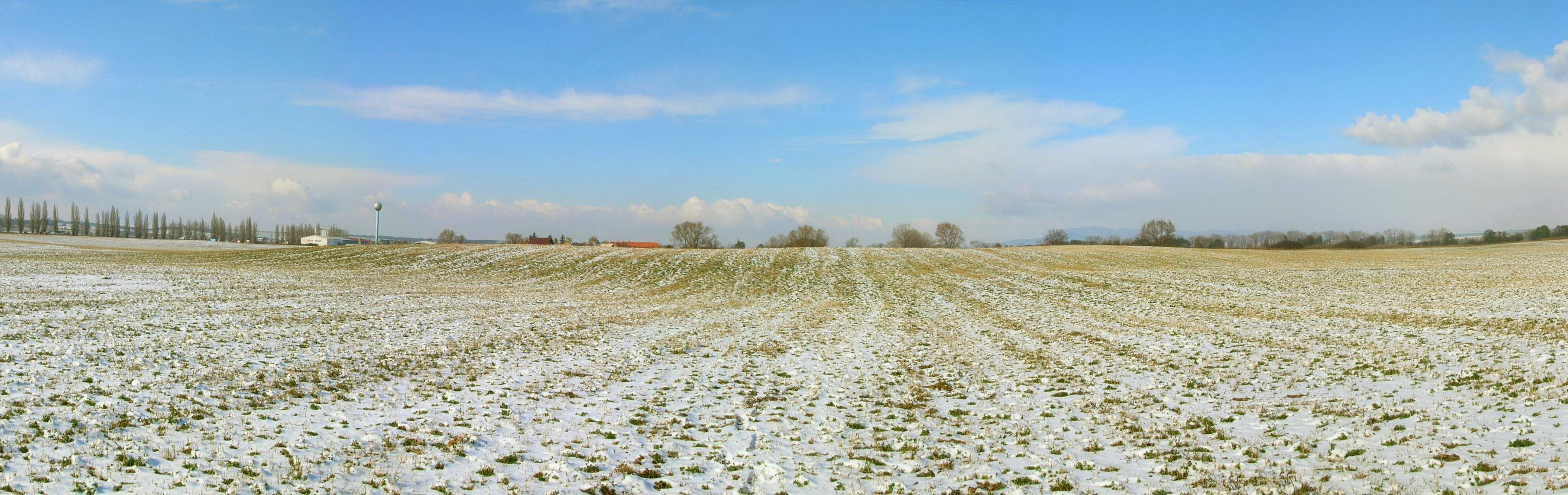 Branč Castle (cadastre of Branč), position Árkuš.